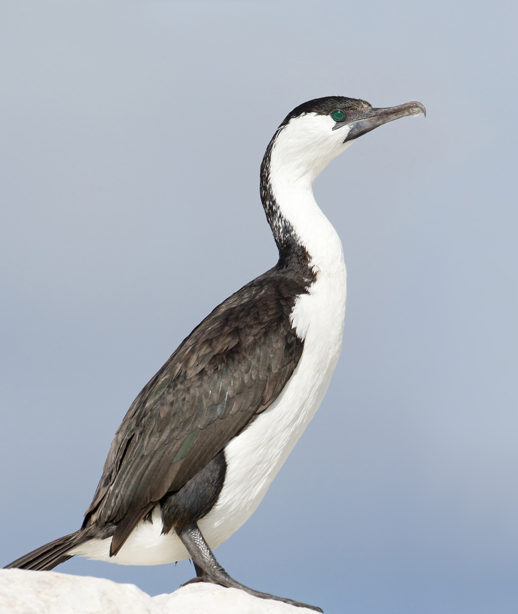 Black-faced Cormorant (Phalacrocorax fuscescens'), Derwent River Estuary, Tasmania, Australia